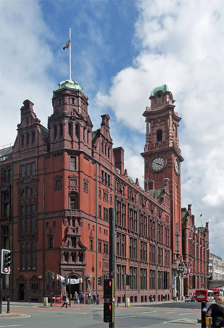 Whitworth Street (out of shot) in 1932. Grade II* listed.